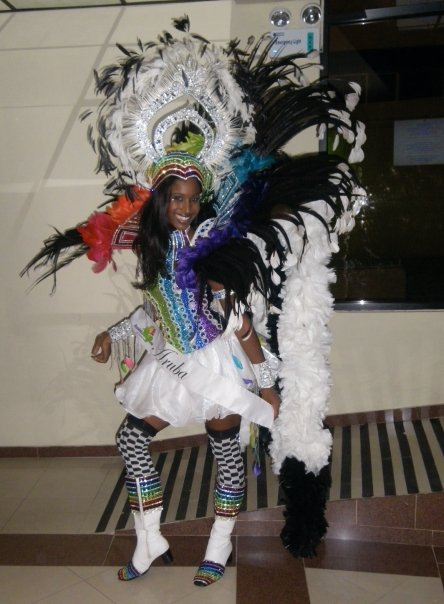 Carol Bruyning representing Aruba in Miss Ambar Mundial 2009 shows of her beautiful national costume